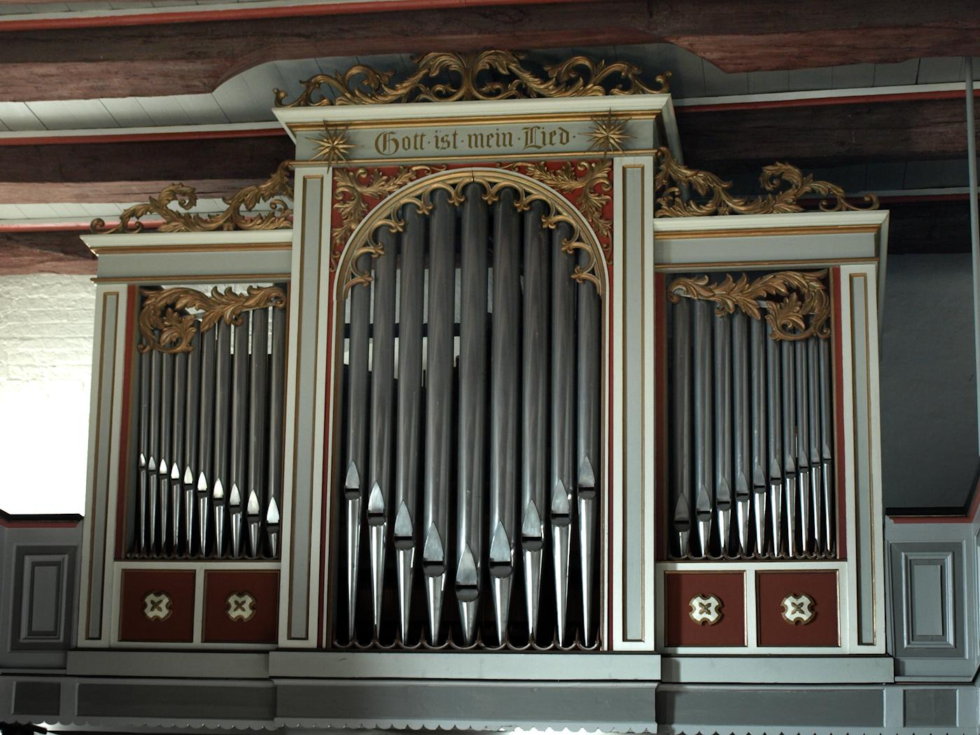 Boel, Schleswig-Holstein (Germany), Church St. Ursula, organ, photo 2011